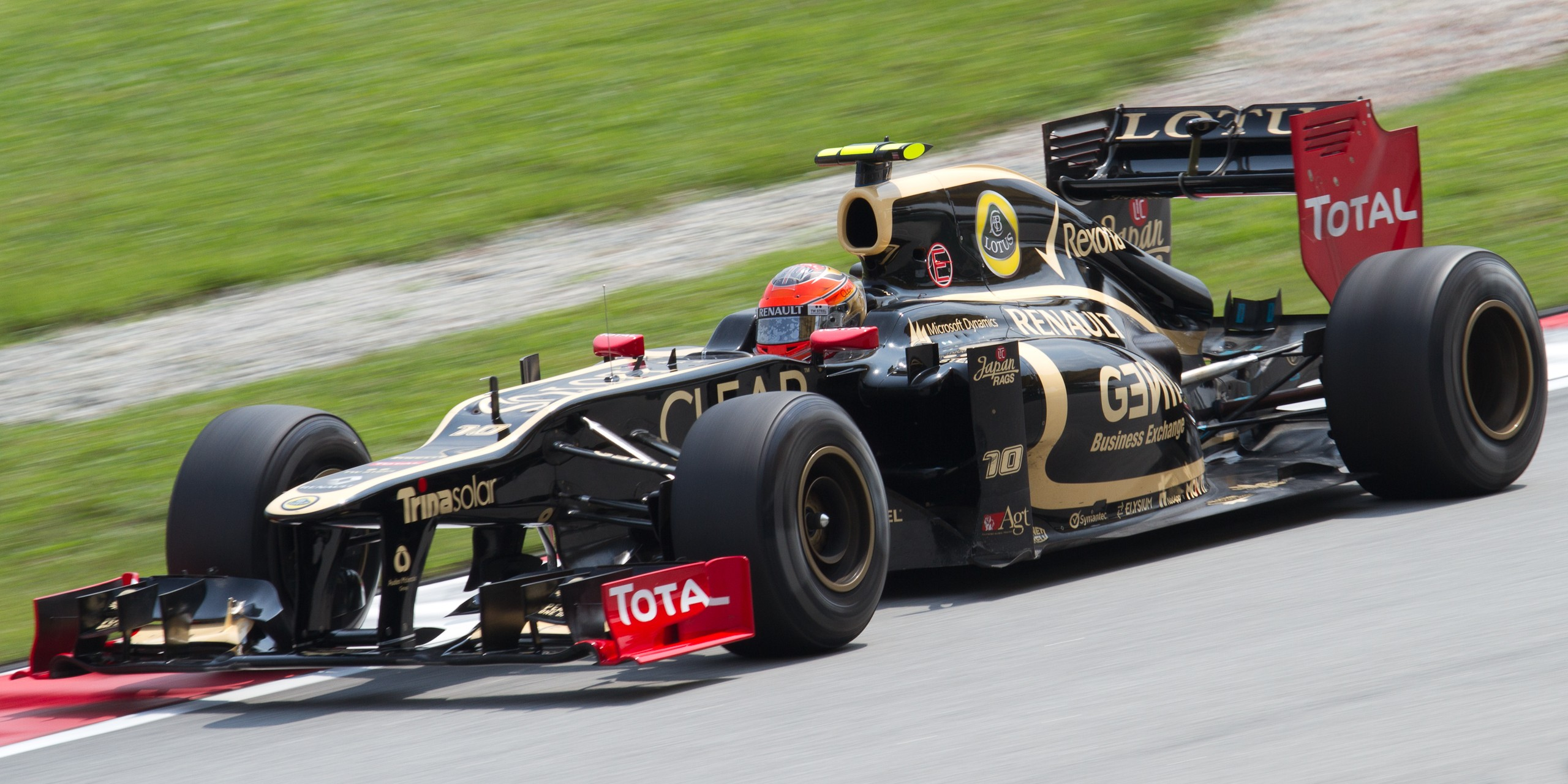 Formula One 2012 Rd.2 Malaysian GP: Romain Grosjean (Lotus) during the first practice session on Friday.